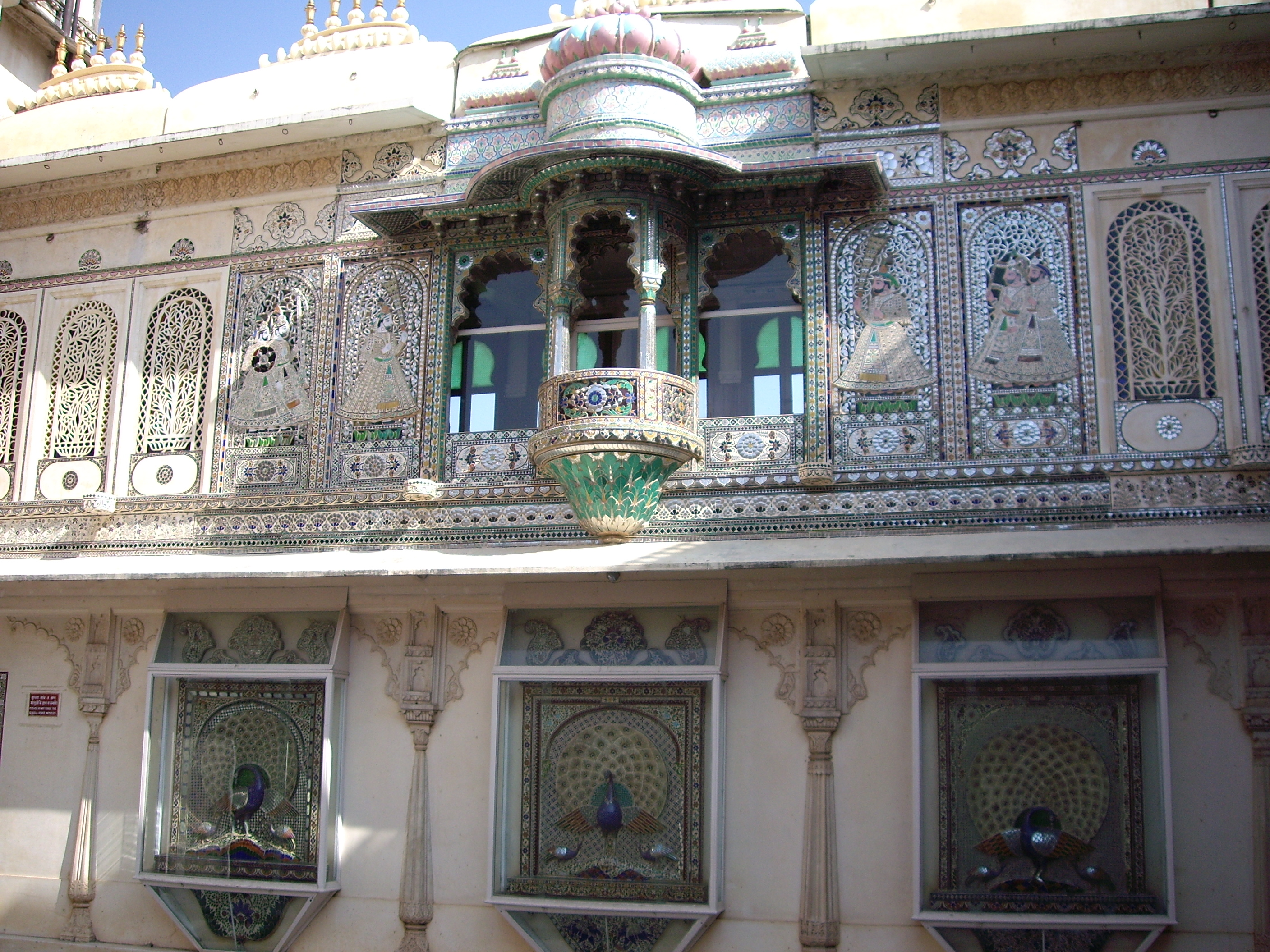 Mor chowk wall, City Palace, Udaipur.